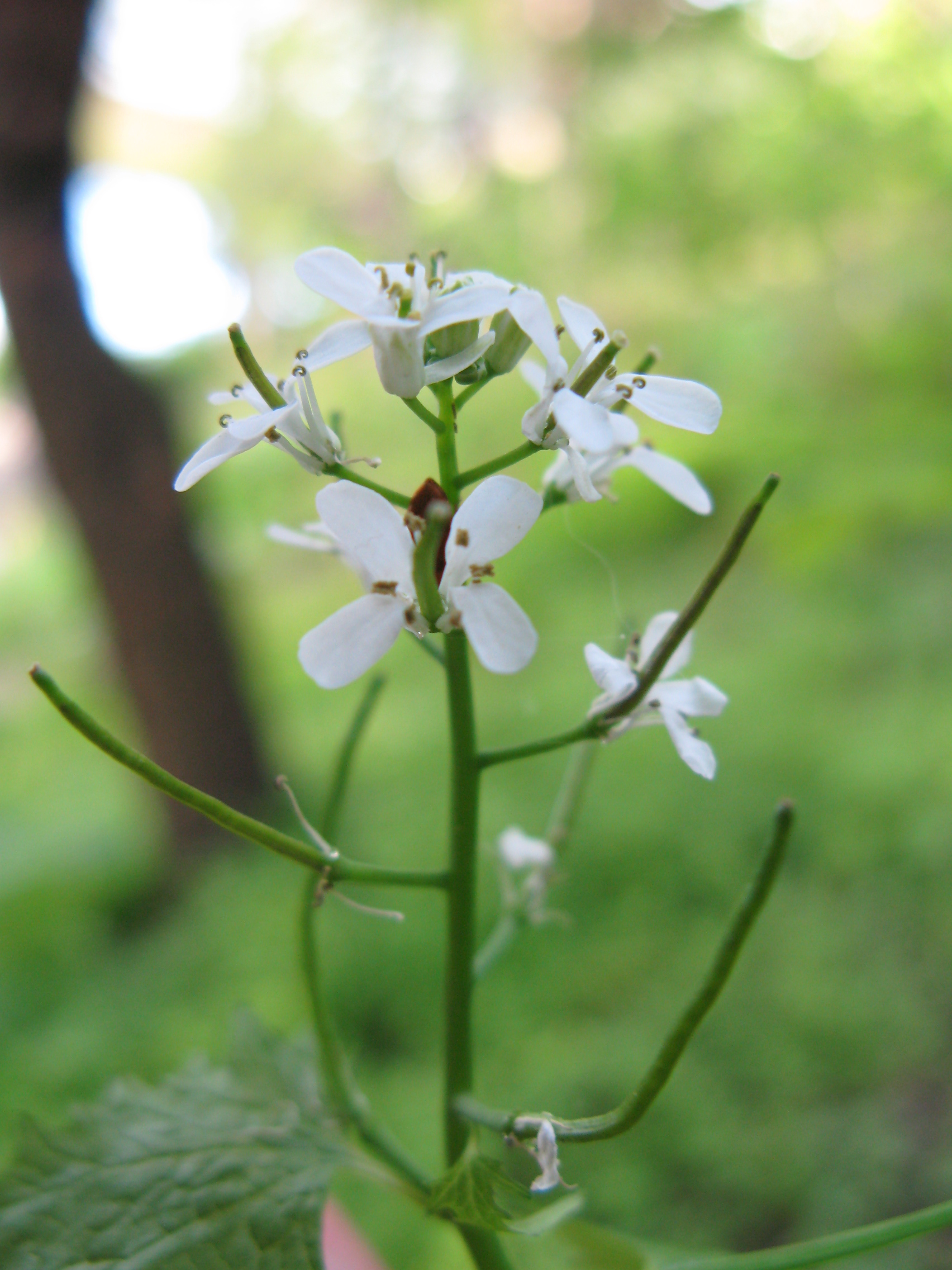 Alliaria petiolata flowers, May 2008, Prague, Czech Republic.